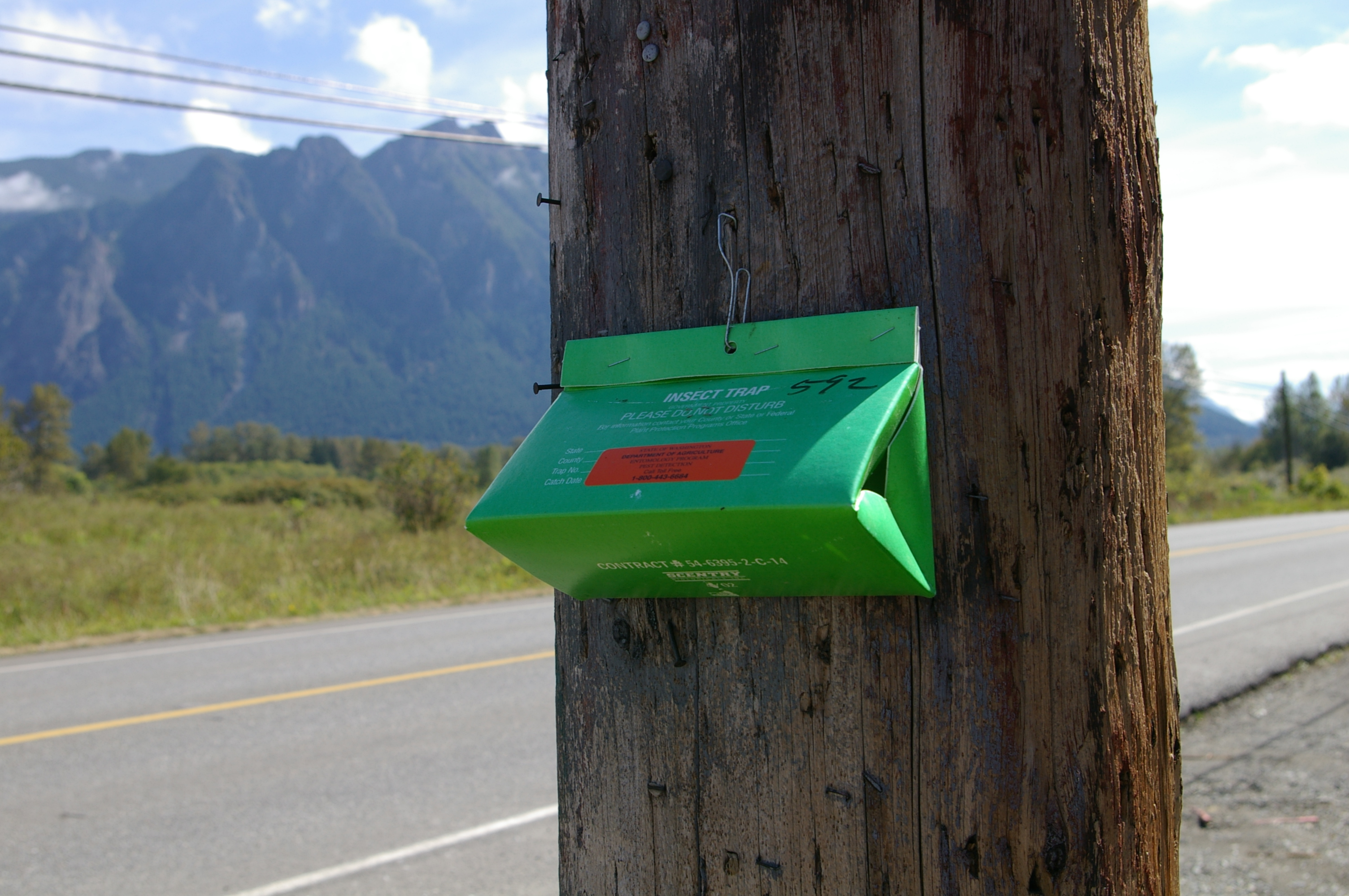 Picture of an Insect Trap on hwy 202 near North Bend, Washington. Mount Si is in the background. This insect trap is being used to study insects in a conservation survey.